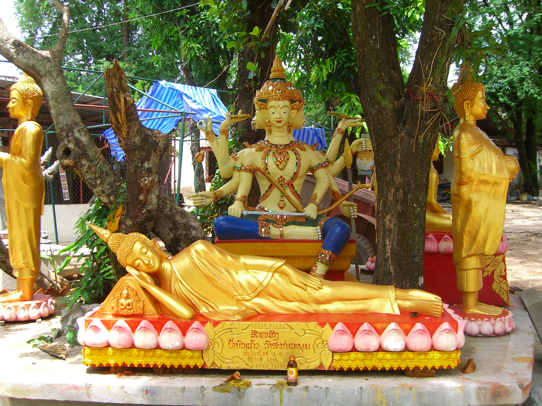 Statue of Brahma, the Hindu Creator God, in the background of reclining Buddha statue.